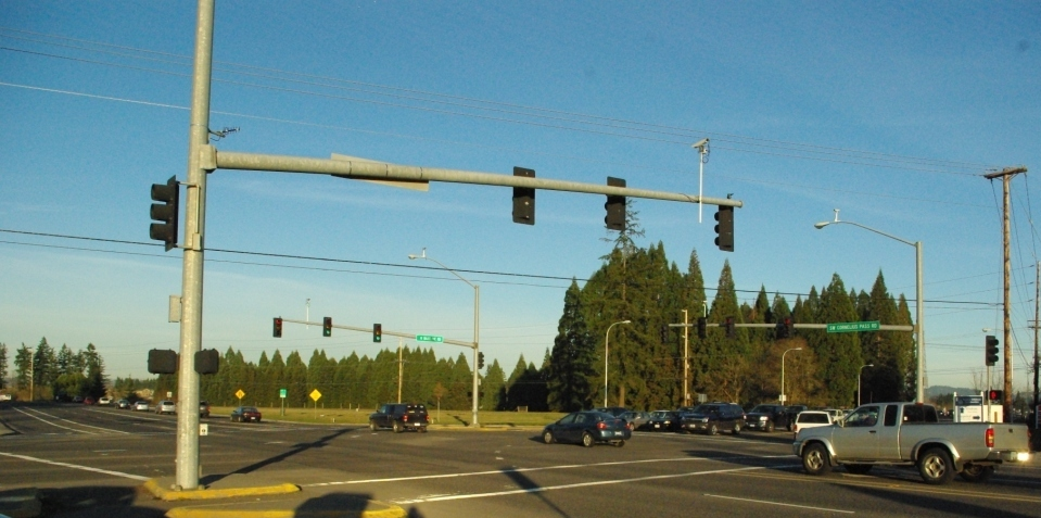 Cornelius Pass Road at Baseline Road looking north in Hillsboro, Oregon, USA